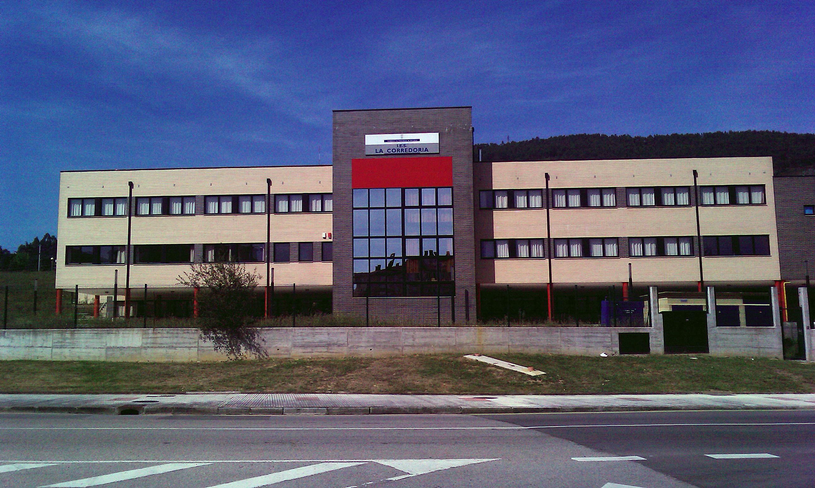 Secondary school in La Corredoria, Oviedo, Asturias, España